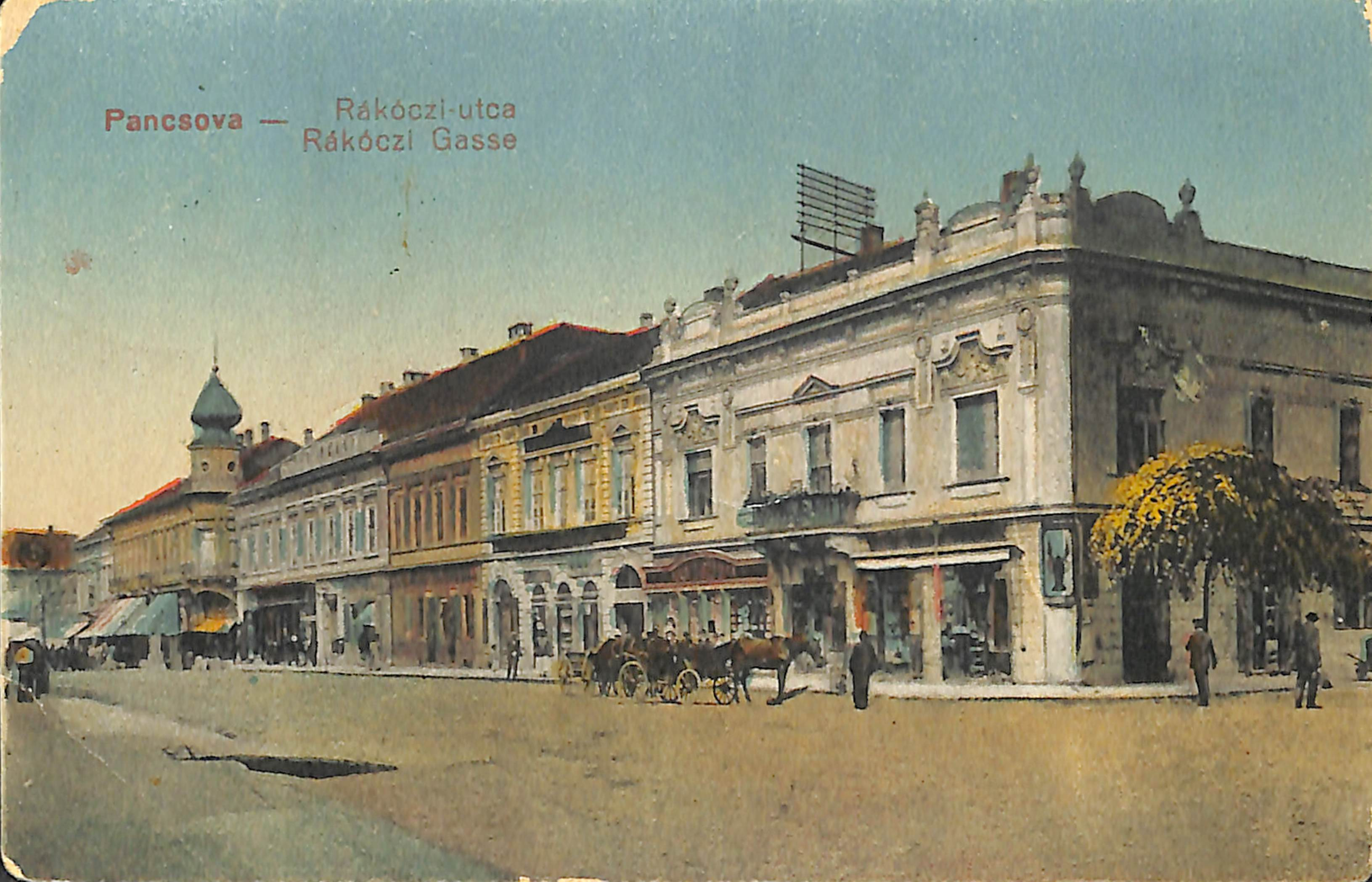 House Aleksic-Smederevac, also Olga Smederevac Salon. Today on the ground floor there is a galleys of contemporary art